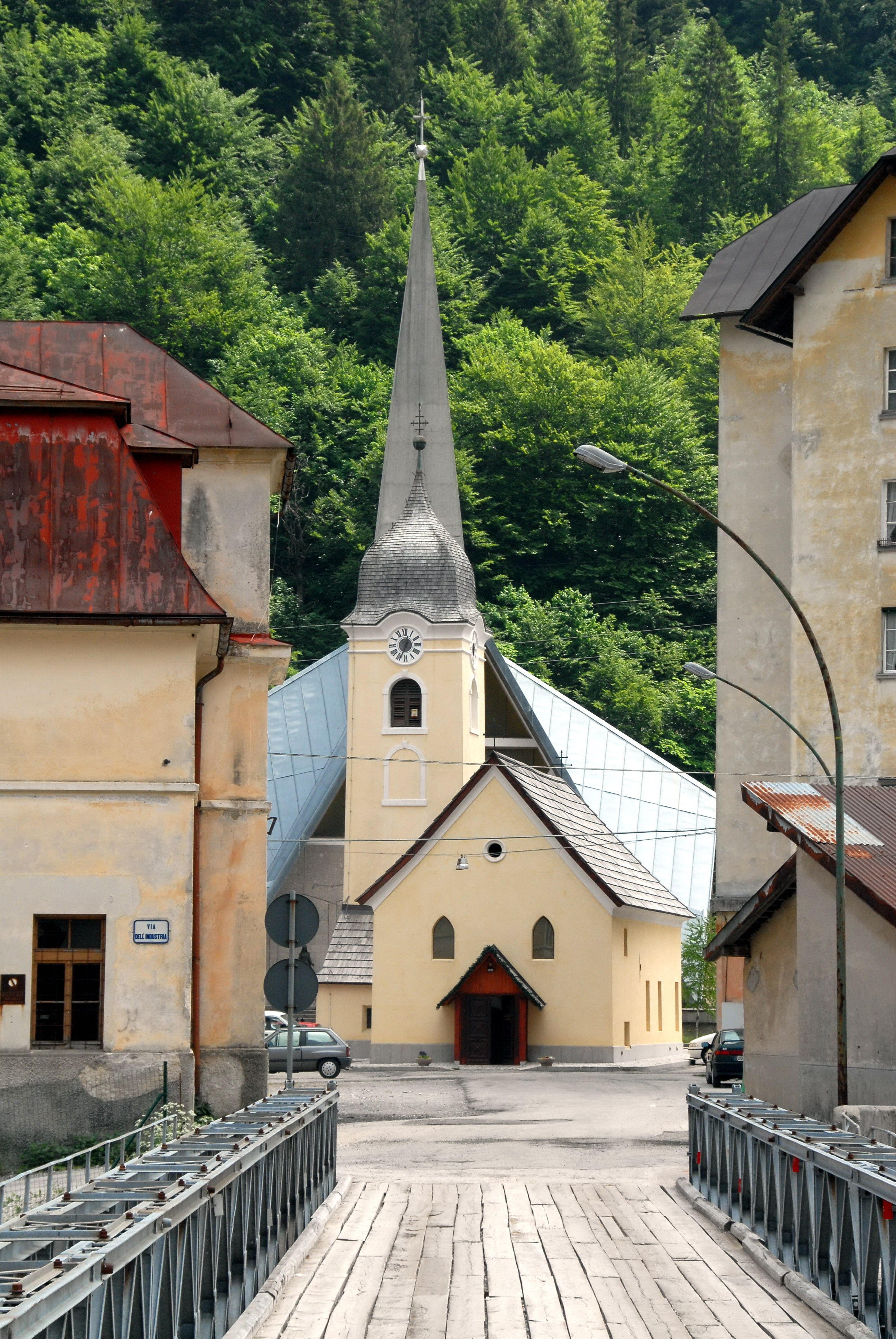 Church Saint Anna at the locality Cave del Predil (Raibl) in the community Tarvisio, province of Udine, region Friuli-Venezia Giulia, Italy